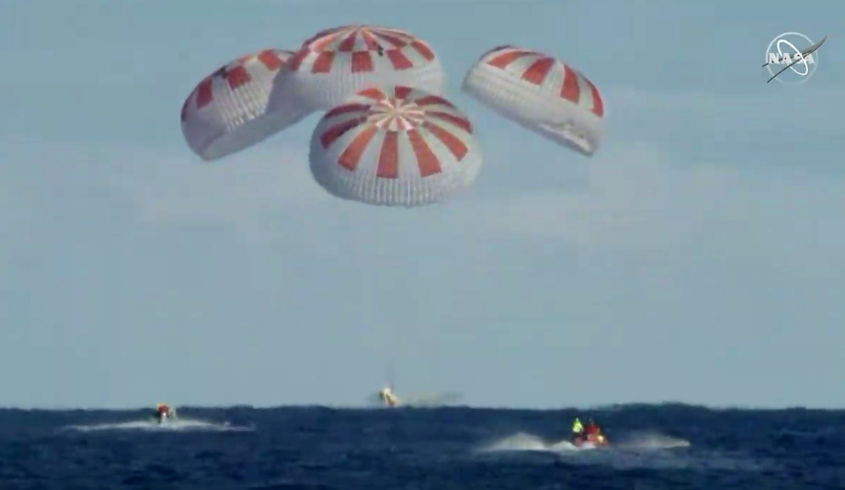 Landing of the Crew Dragon capsule of SpaceX Crew Dragon Demo Mission 1 in the Atlantic ocean.